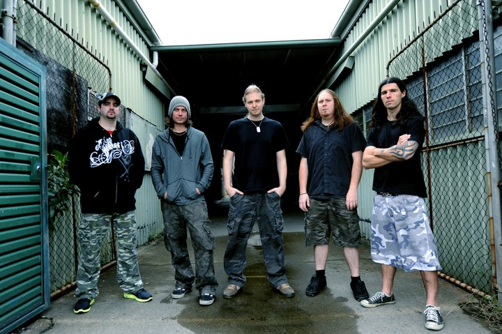 Original Tria Mera Lineup